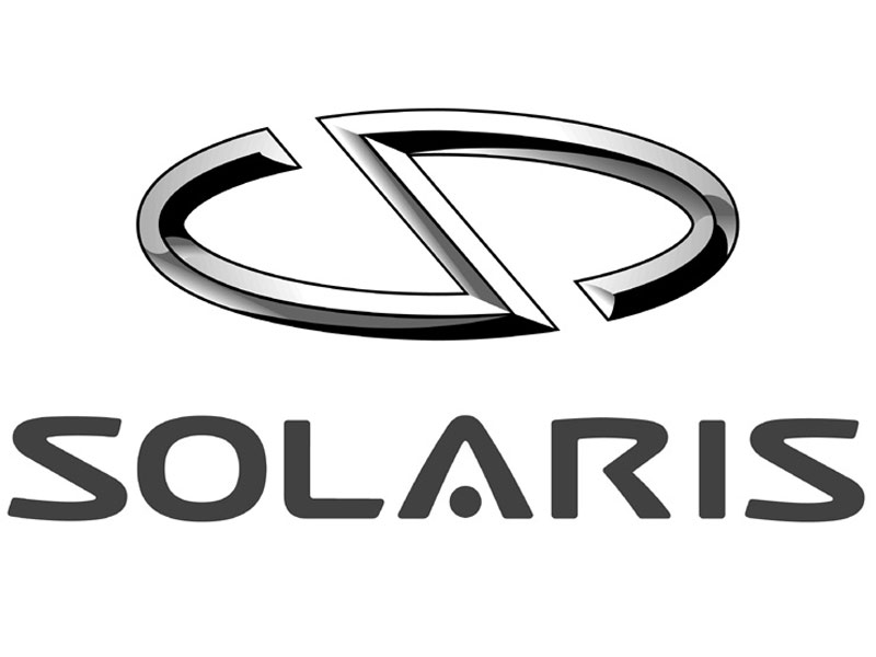 Solaris Bus & Coach.